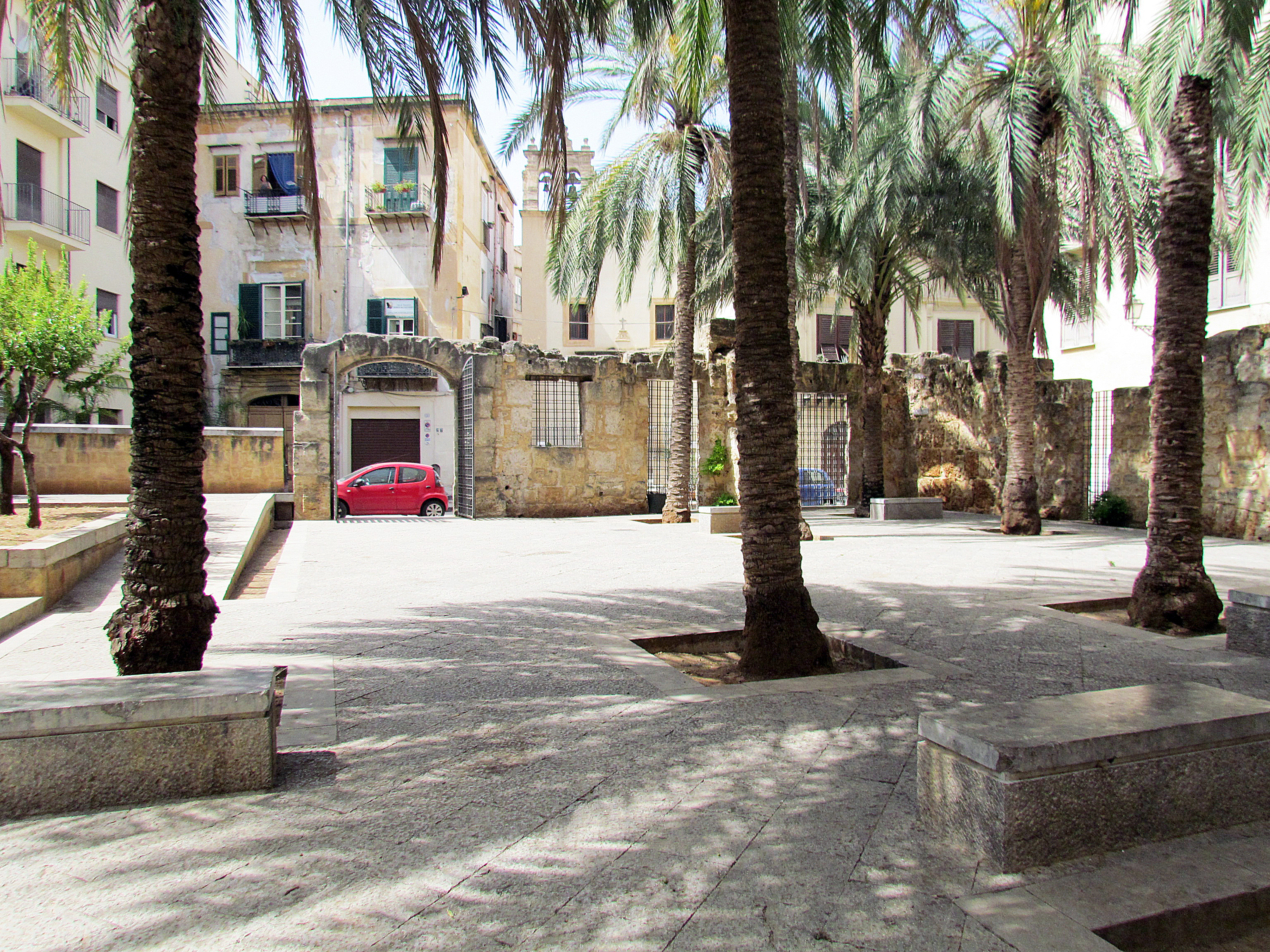 Garden of the Righteous Palermo